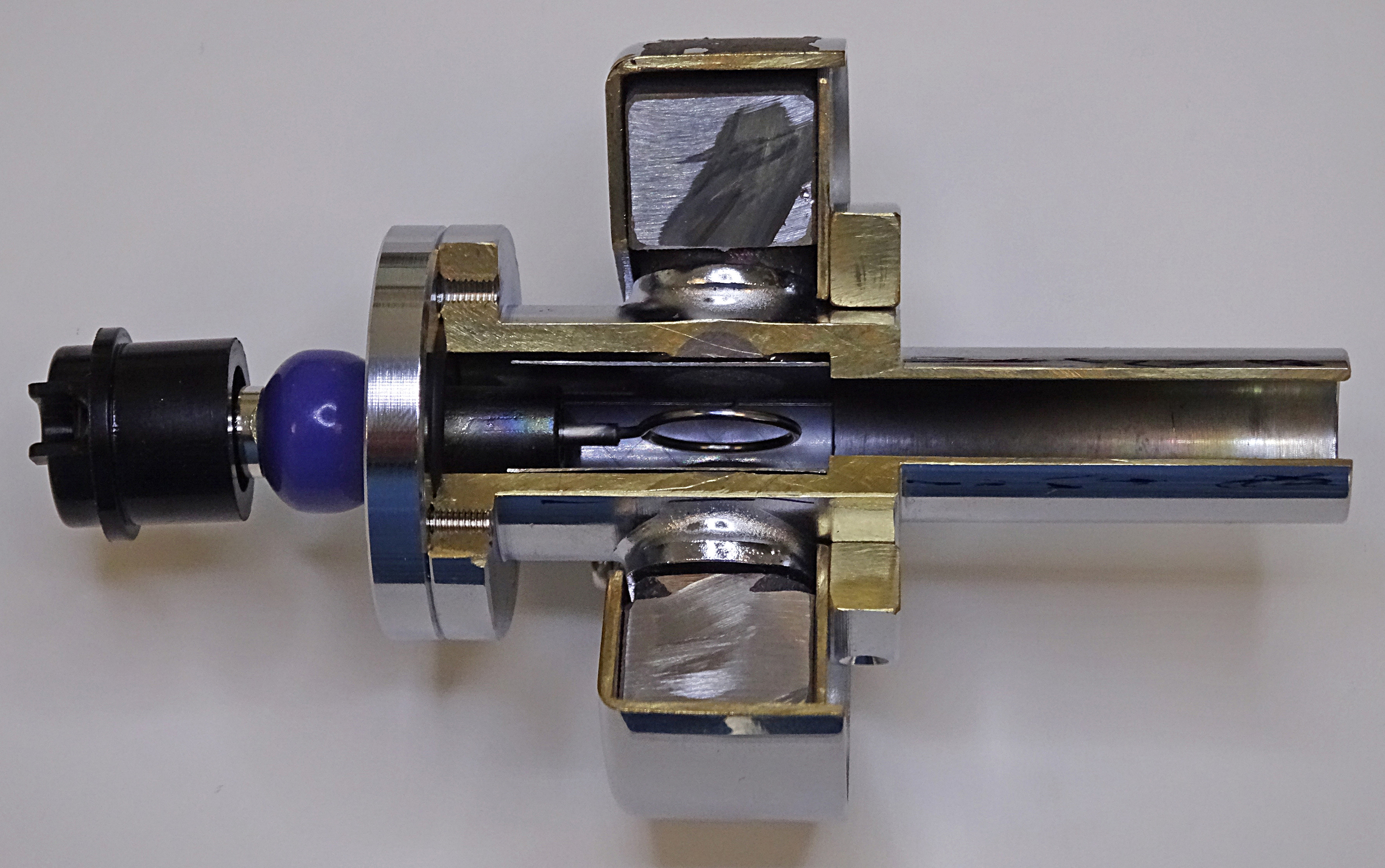 Penning vacuum gauge (open) according to Frans Michel Penning for the measurement of high and ultra-high vacuum by impact ionization of residual gas particles